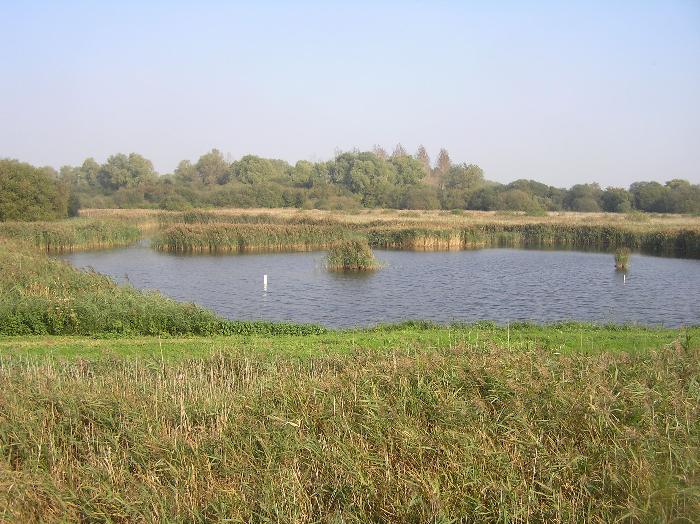 Fowlmere nature reserve taken from the Reedbed hide. Taken 16th October 2005 by NH Savage and released under the GFDL.